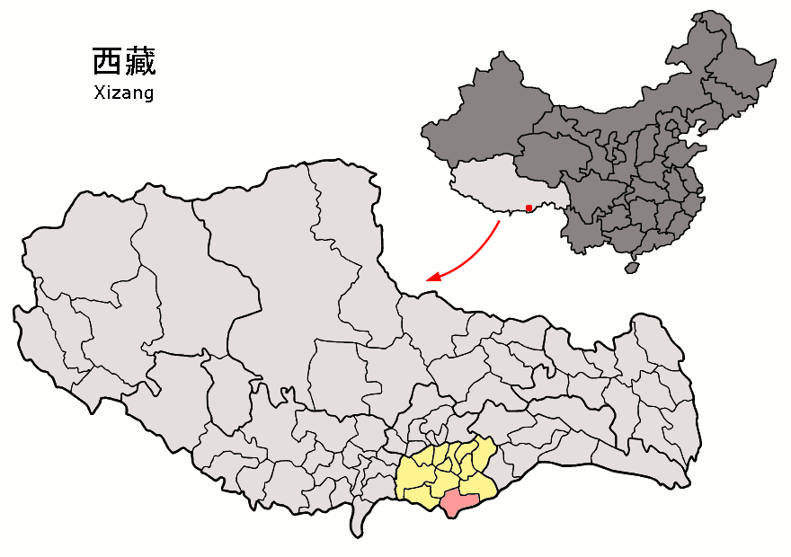 Location of Cuona County (pink) and Shannan Prefecture (yellow) within Tibet (Xizang) autonomous region of China